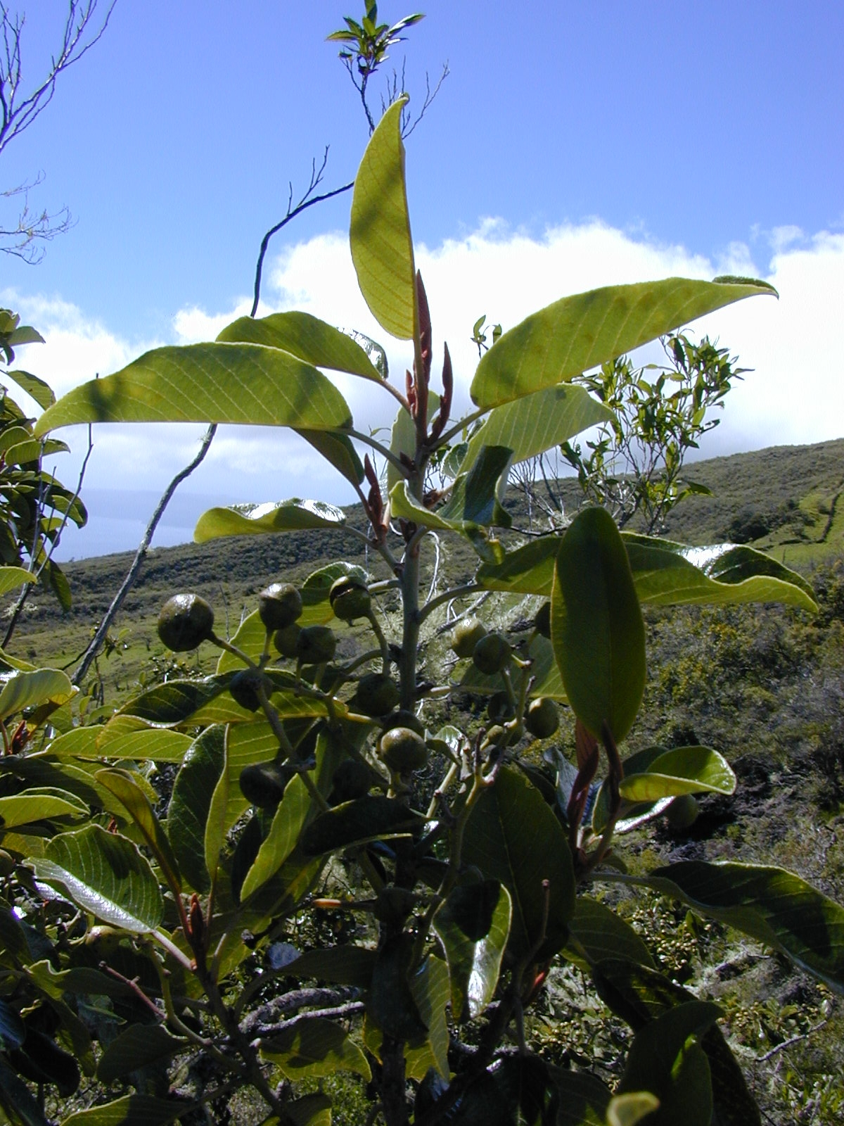 Alphitonia ponderosa (seeds and leaves). Location: Maui, Auwahi